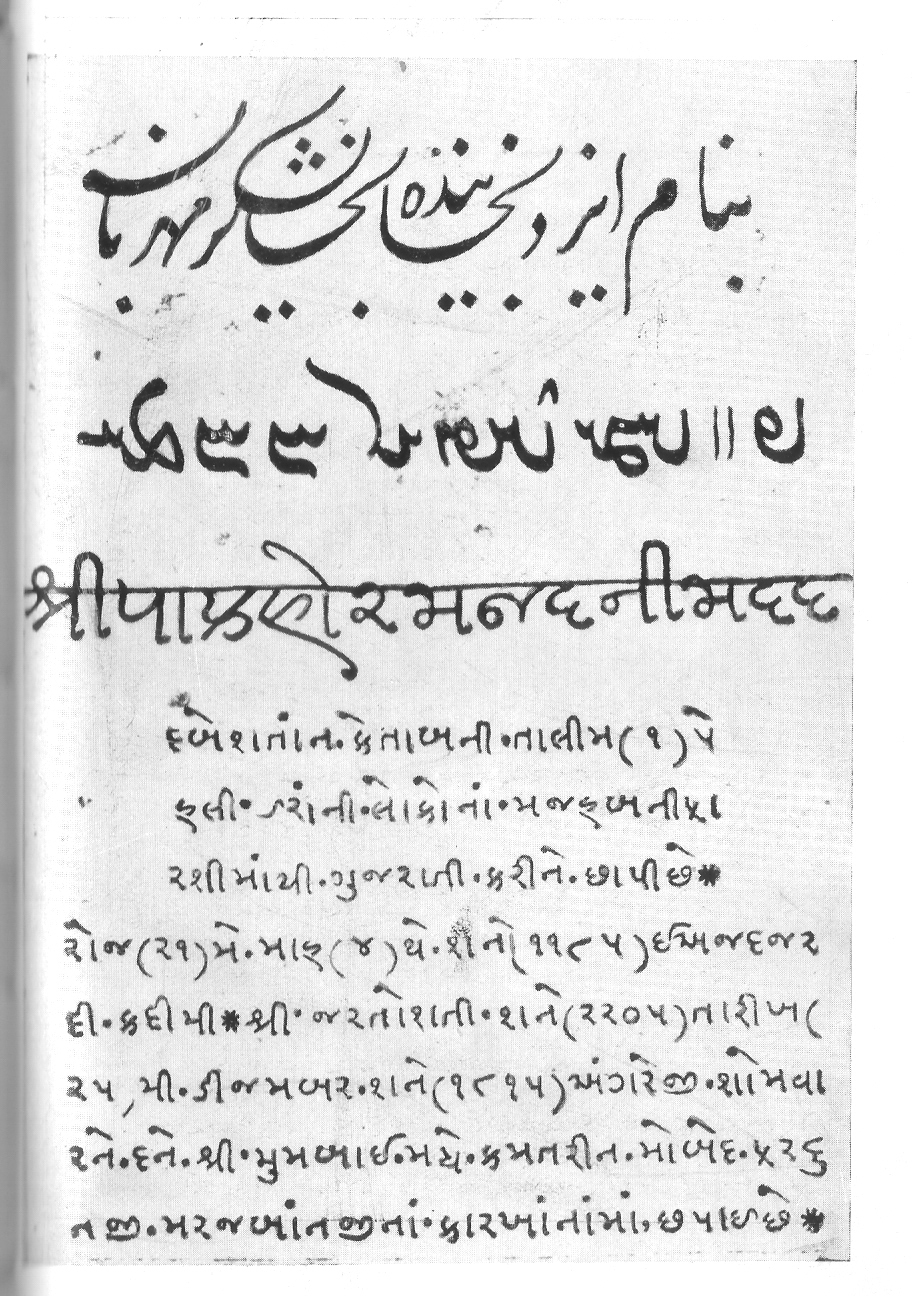 An image of a page from the translation of the Dabistān-i Mazāhibm prepared and printed by Fardunji Marzban in Bombay, 1815